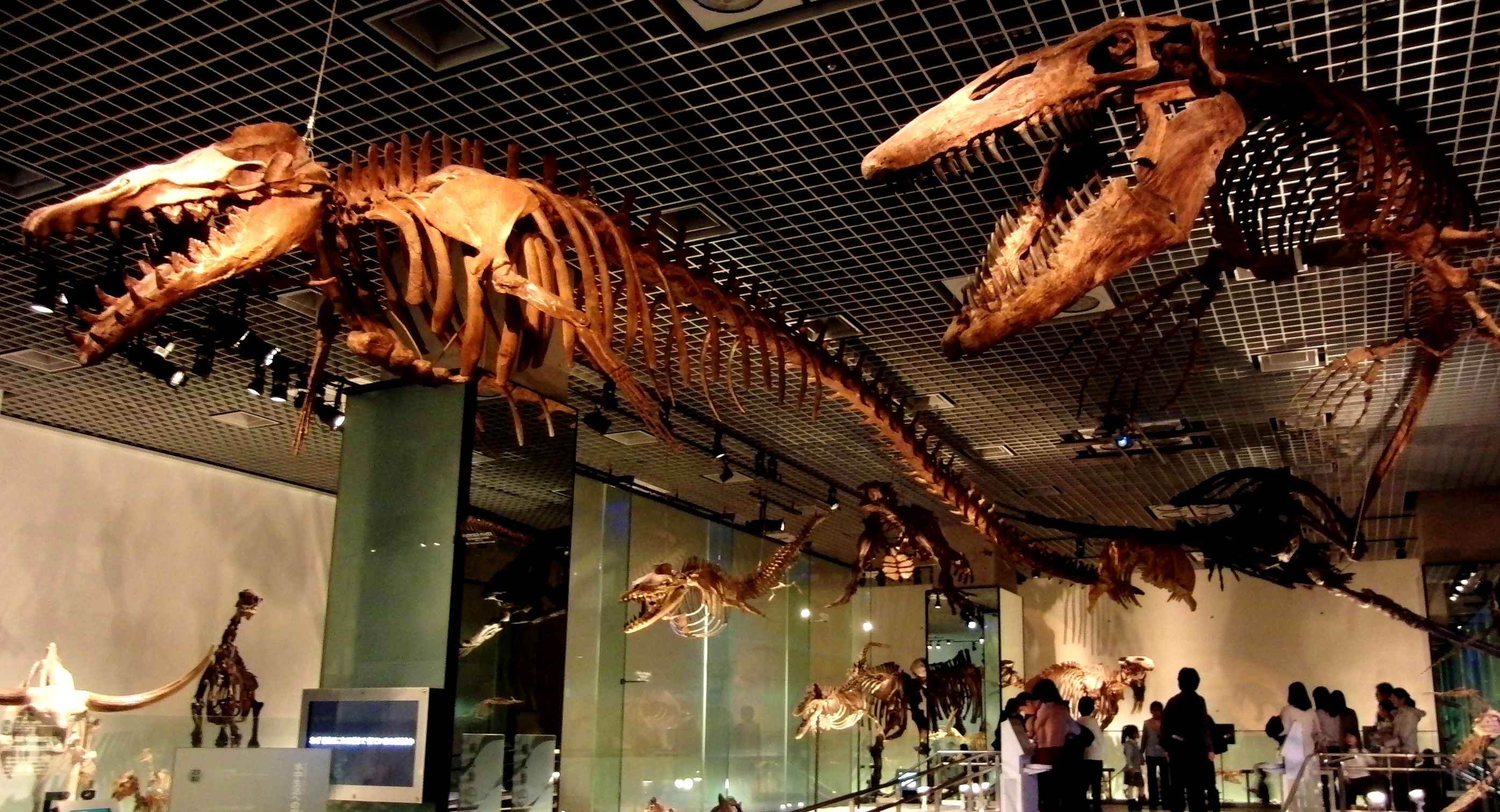 Skeletons of Basilosaurus cetoides (left) and Tylosaurus proriger (right). Exhibition in the National Museum of Nature and Science, Tokyo, Japan.